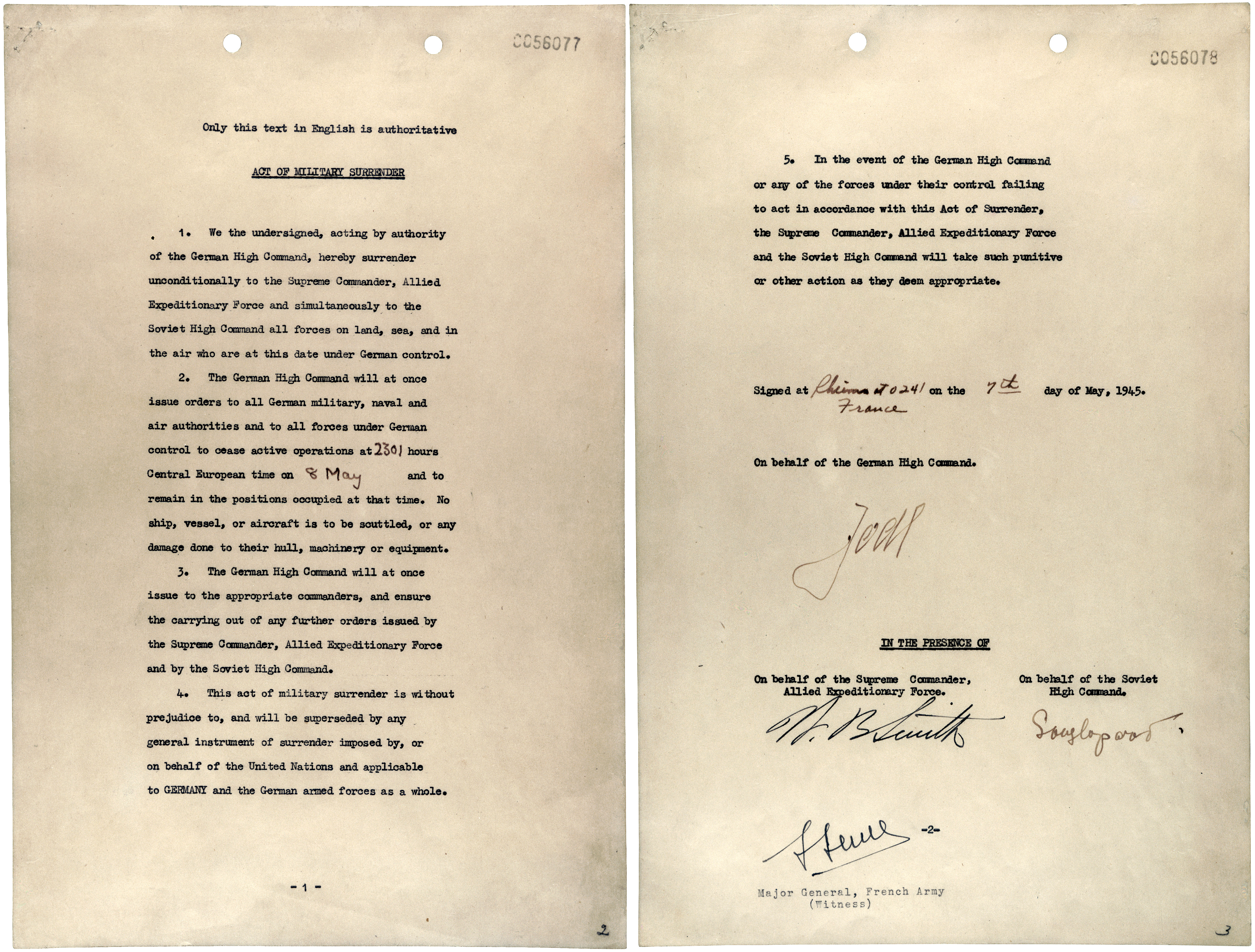 This instrument of surrender was signed on May 7, 1945, at Gen. Dwight D. Eisenhower's headquarters in Rheims by Gen. Alfred Jodl, Chief of Staff of the German Army. At the same time, he signed three other surrender documents, one each for Great Britain, Russia, and France.